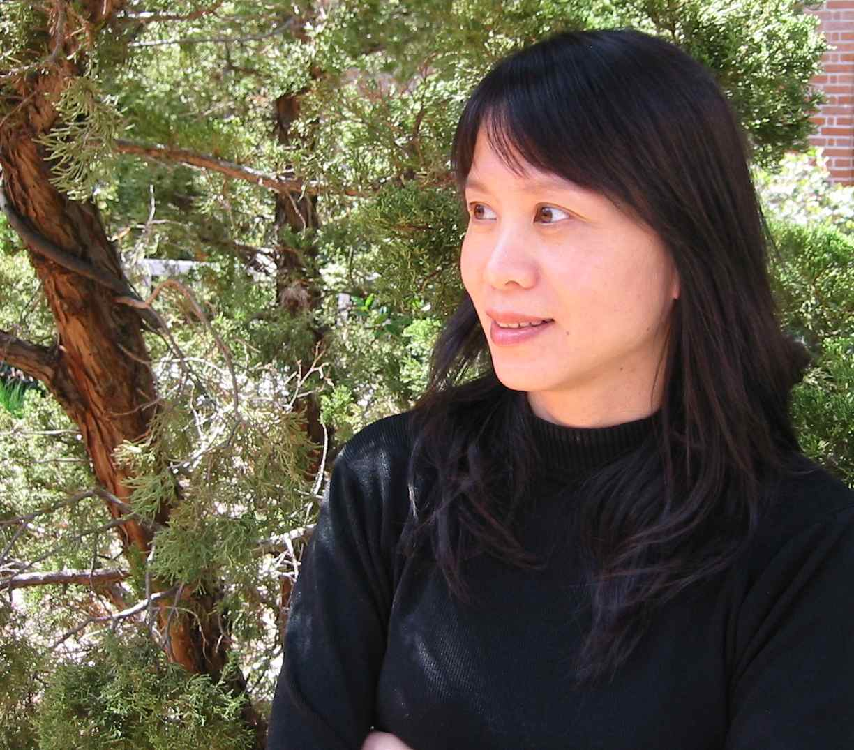 Picture of Composer Shih-Hui Chen